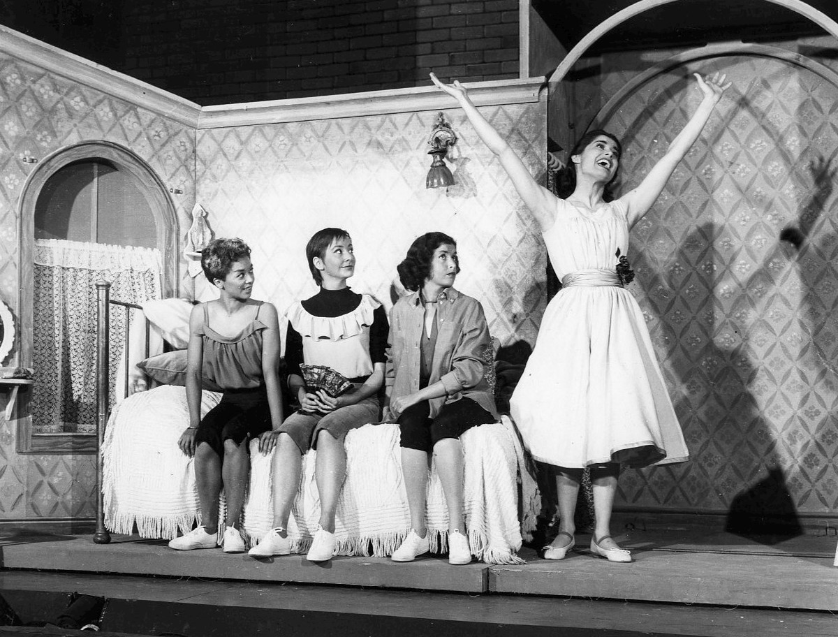 Photo from the "I Feel Pretty" musical number from West Side Story. Pictured from left: Elizabeth Taylor (Francesca), Carmen Gutierrez (Teresita), Marilyn Cooper (Rosalia), Carol Lawrence (Maria).